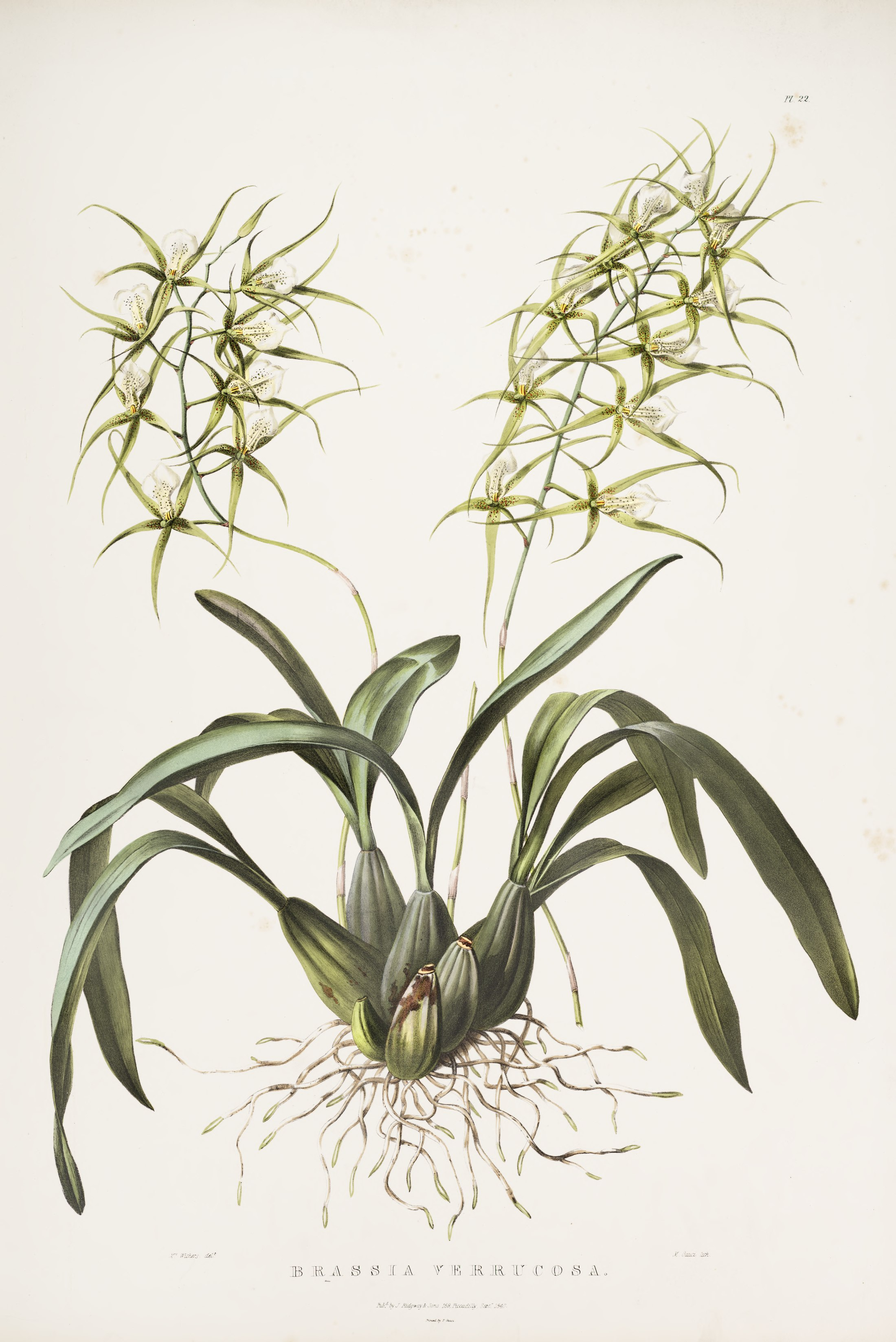 Illustration of Brassia verrucosa